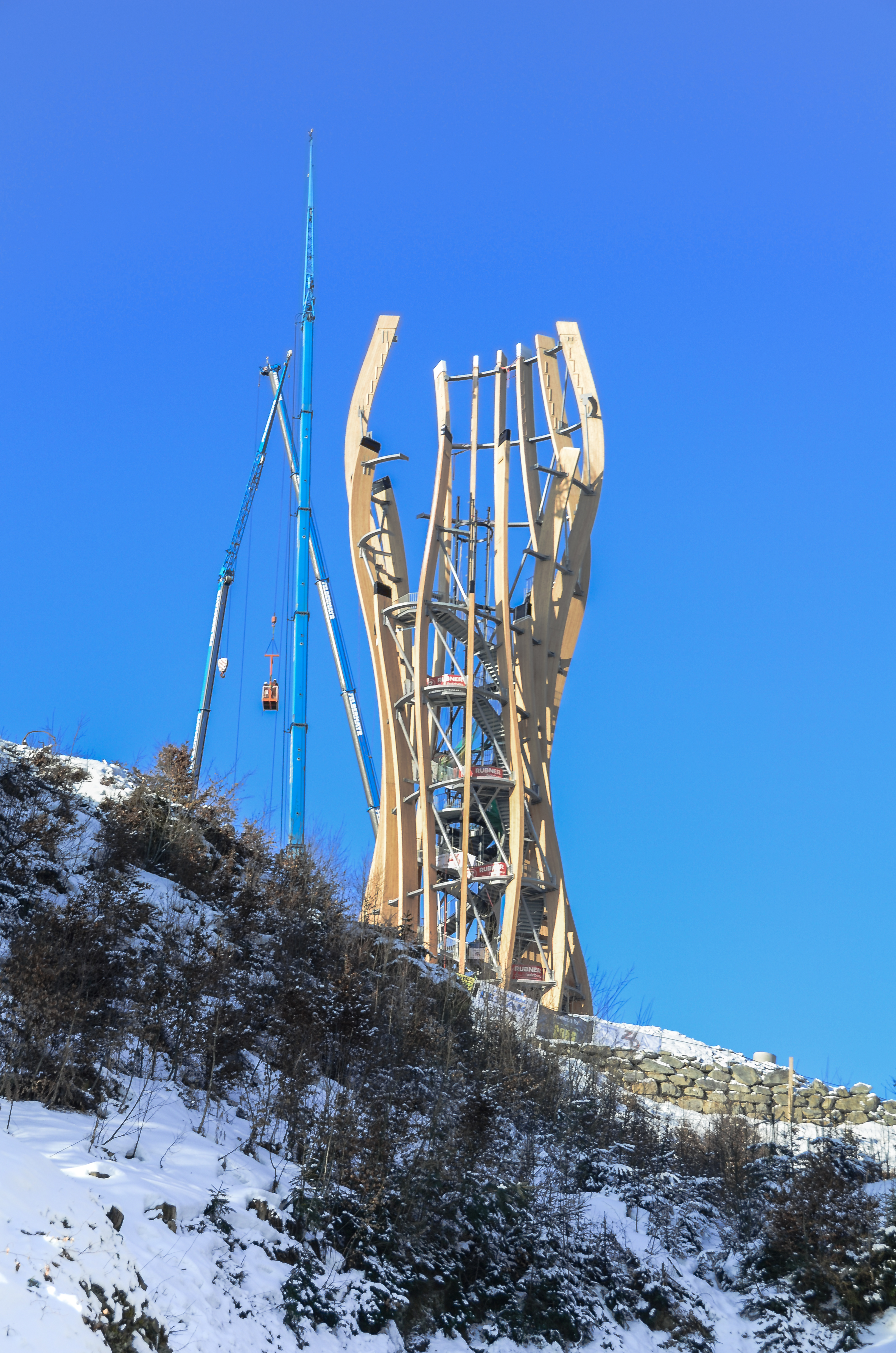 construction works of the new tower on the Pyramidenkogel